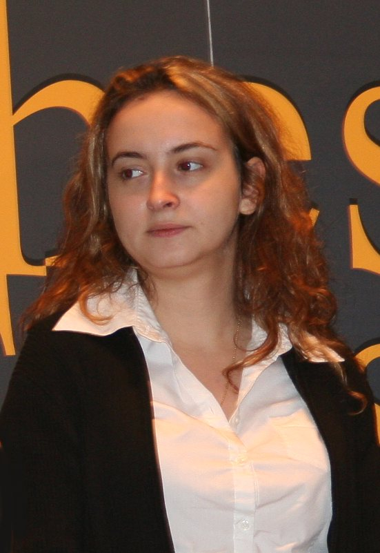 Antoaneta Stefanova — Bulgarian grandmaster. August 2005.